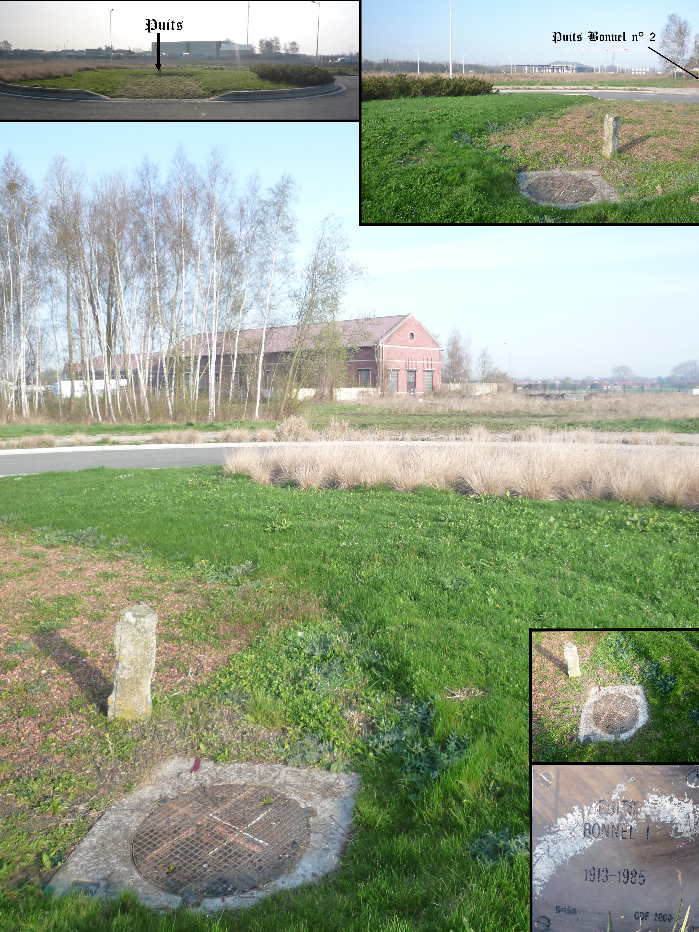 Pit Bonnel #1 at Lallaing, France.